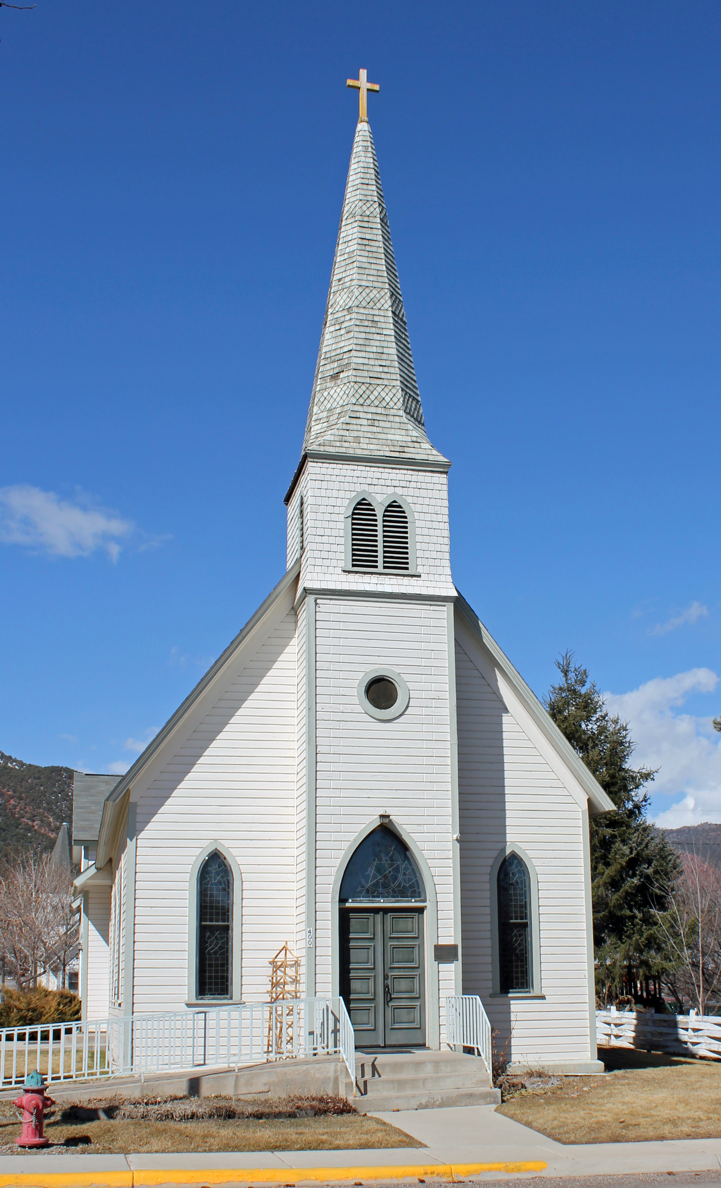 The First Evangelical Lutheran Church, located at 400 2nd Street in Gypsum, Colorado. The property is listed on the National Register of Historic Places.